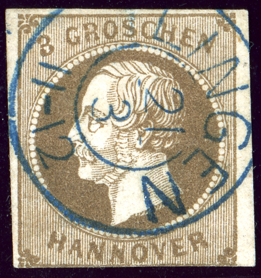 Stamp of the Kingdom of Hanover, 3 Groschen, issue 1861, George V head, blue cancelled at LINGEN, Lower Saxony.